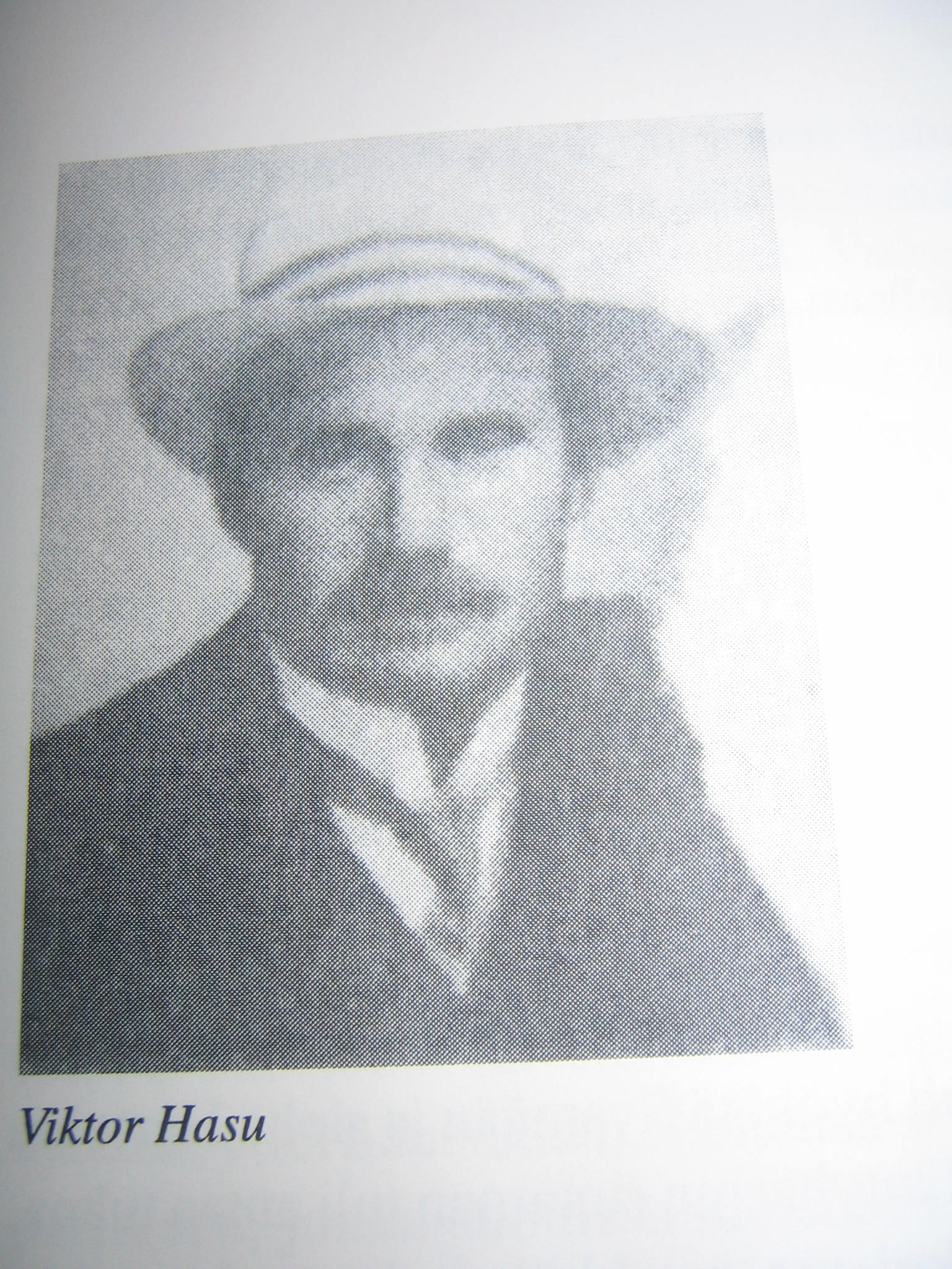 Finnish red guard leader Vihtori Hasu